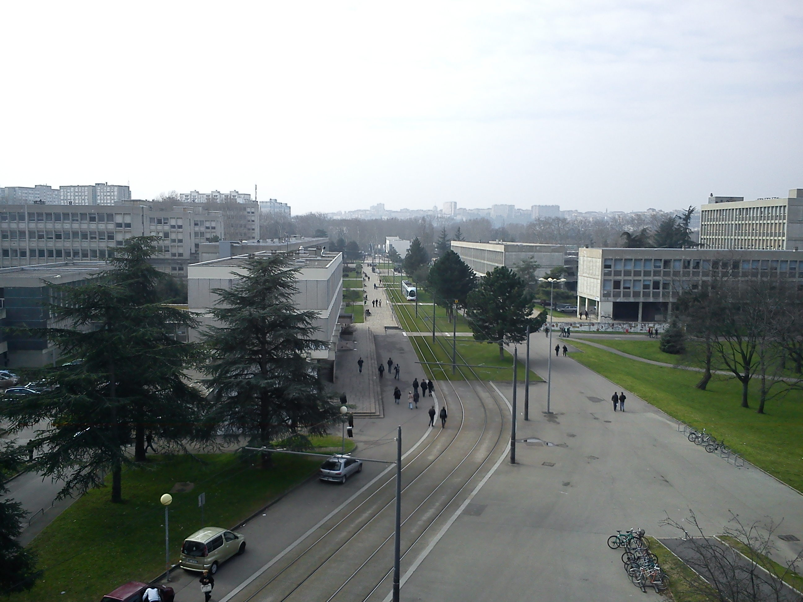 "La Doua", campus of the Claude Bernard Lyon 1 University (France)